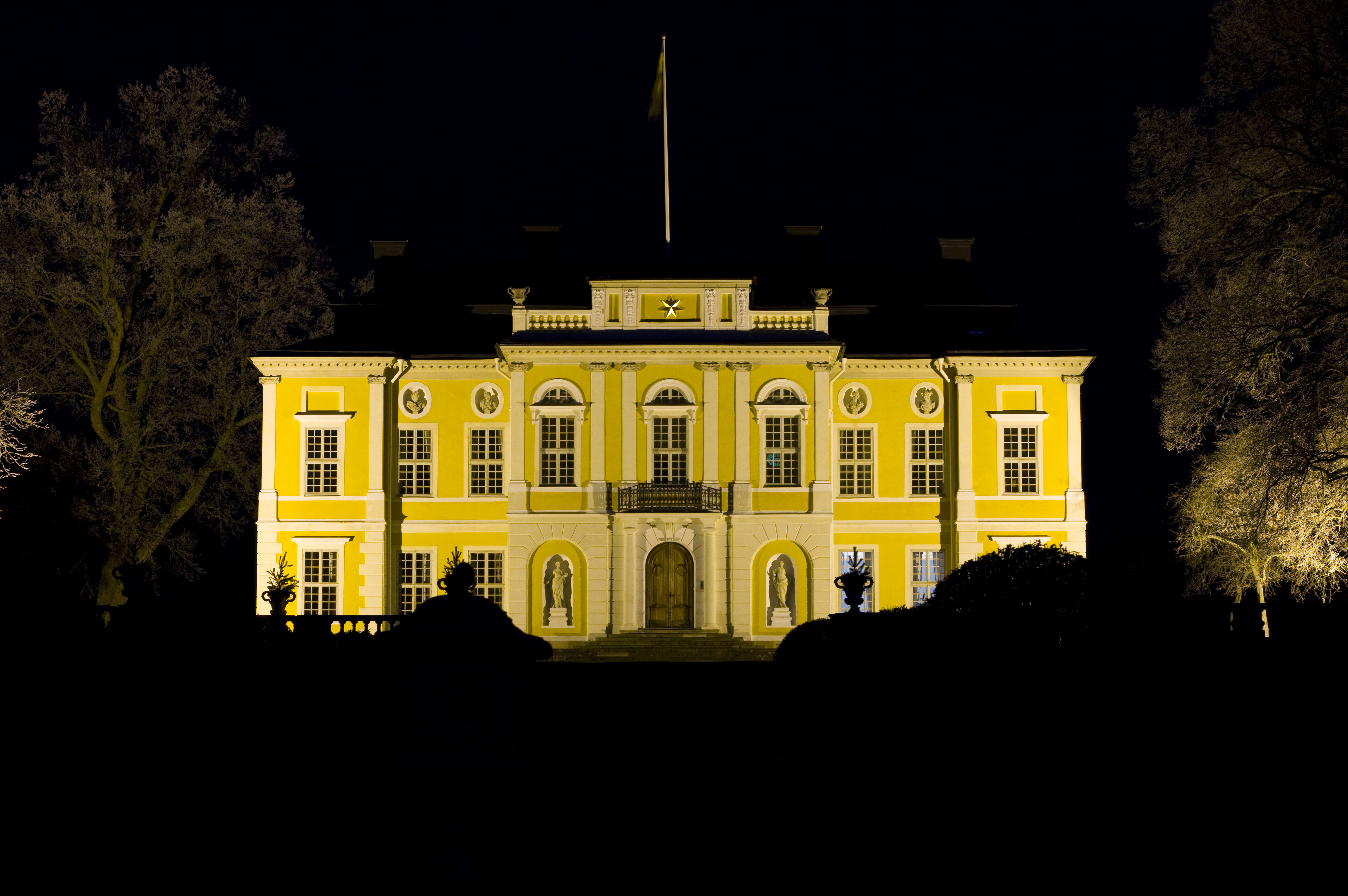 Picture of Steninge Castle close to Stockholm - Arlanda Airport in the municipality of Sigtuna, Sweden